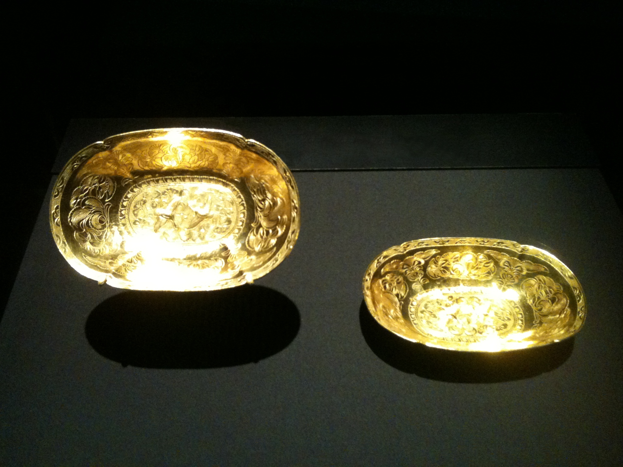 Part of the collection of artifacts from the Belitung shipwreck owned by the Sentosa Leisure Group and the Government of Singapore, photographed while displayed at an exhibition called Shipwrecked: Tang Treasures and Monsoon Winds at the ArtScience Museum, Marina Bay Sands, Singapore, from 19 February 2011 to 31 July 2011.